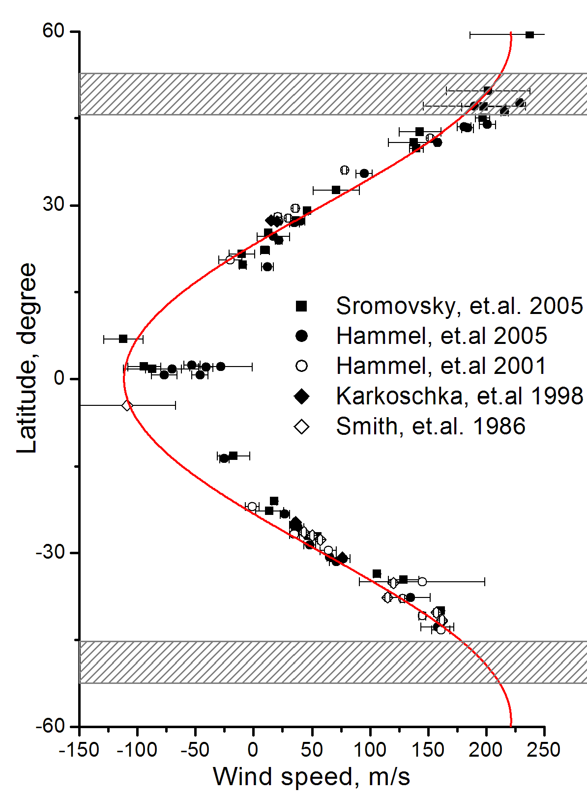 The figure shows zonal winds on Uranus as listed in. (Shaded areas show southern collar and its future northern counterpart. The red curve is a symmetrical fit from Sromovsky et.al 2005.) Hammel, H.B.; Rages, K.; Lockwood, G.W.; et.al. (2001). "New Measurements of the Winds of Uranus". Icarus 153: 229-235. (Table II), in the figure Smith et.al. 1986, Karkoschka et.al.1998, Hammel et.al.2001. Hammel, H.B.; de Pater, I.; Gibbard, S.; et.al. (2005). "Uranus in 2003: Zonal winds, banded structure, and discrete features" (pdf). Icarus 175: 534-545. (Table 3), in the figure Hammel et.al. 2005) Sromovsky, L.A.; Fry, P.M. (2005). "Dynamics of cloud features on Uranus". Icarus 179: 459-483. (Table 7), in the figure Sromovsky et.al 2005